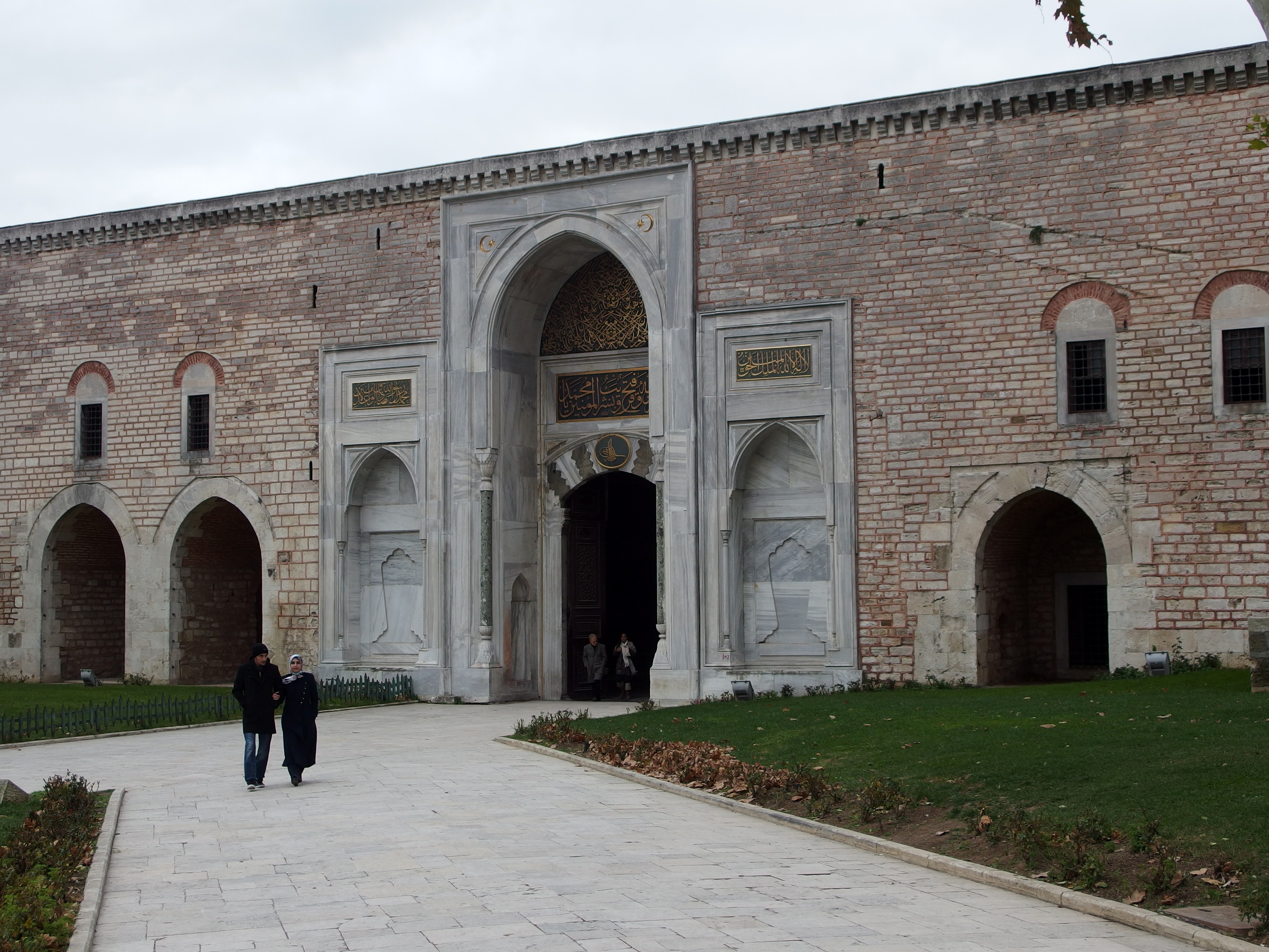 2013-12-04 in Istanbul.